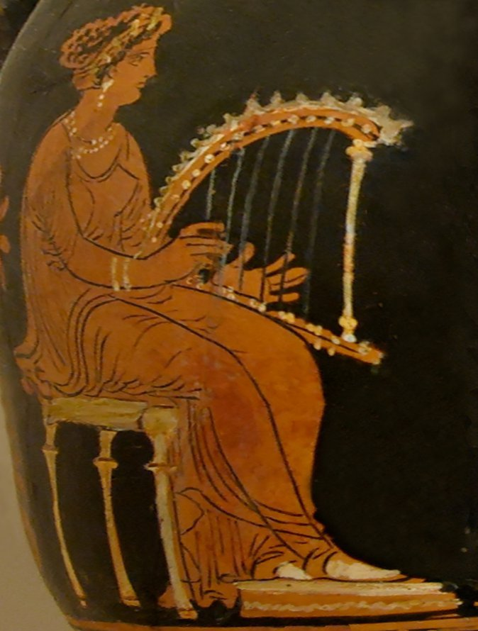 A woman holding a harp. Apulian red-figured pelike, ca. 320–310 BC. From Anzi.